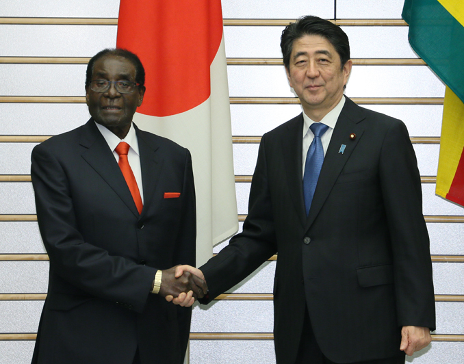 Robert Mugabe, President, met Shinzō Abe, Prime Minister, at the Prime Minister's Official Residence in Chiyoda Ward, Tōkyō Metropolis on March 28, 2016.